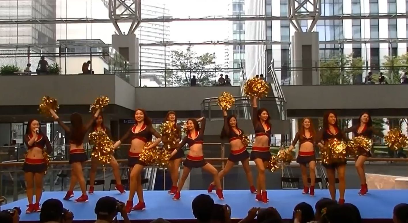 Brose event minatomirai